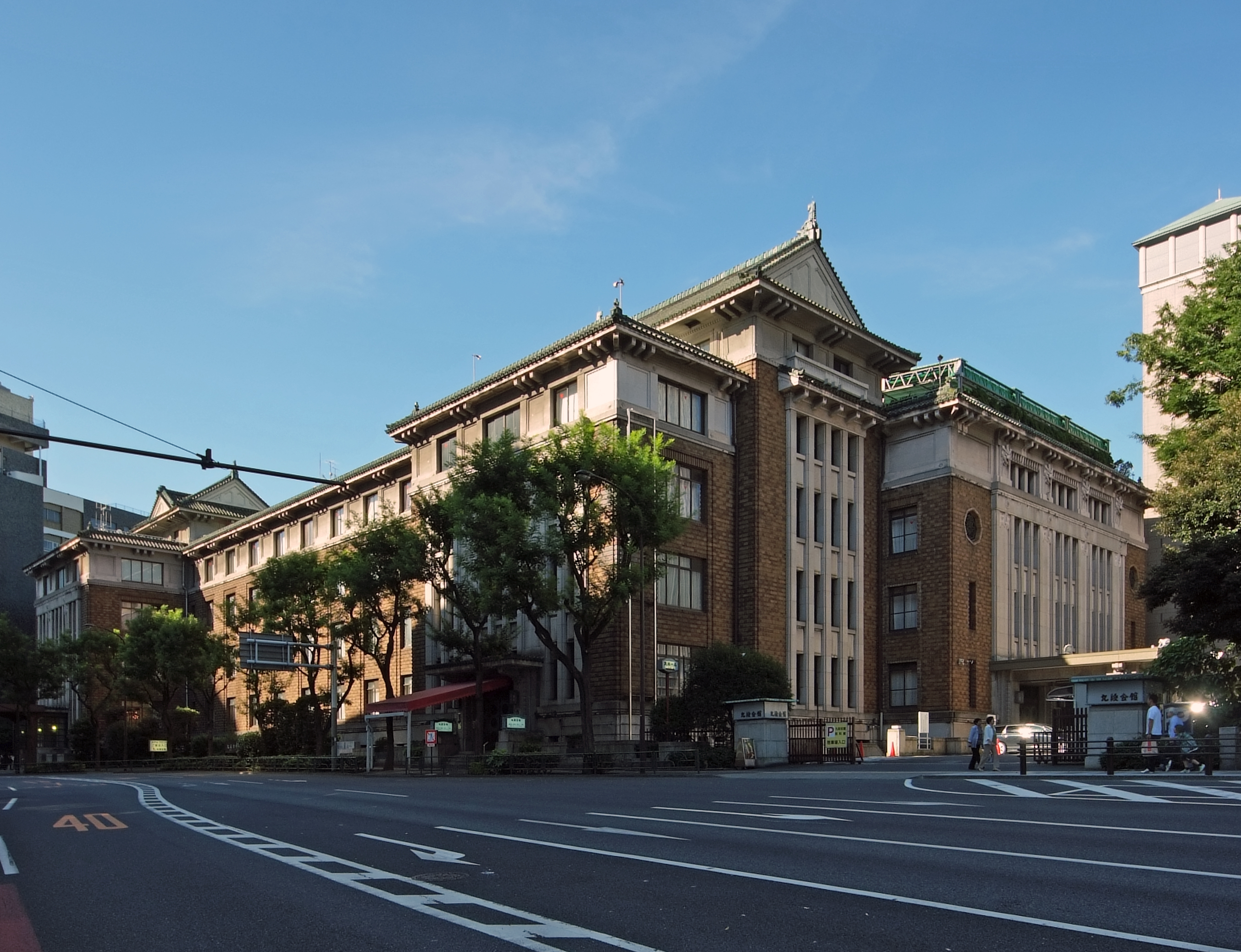 Kudan Kaikan (former Military Officer's Club), 1-8-5 Kudan-minami, Chiyoda-ku, Tokyo, Japan, designed by Ryoichi Kawamoto in 1934.